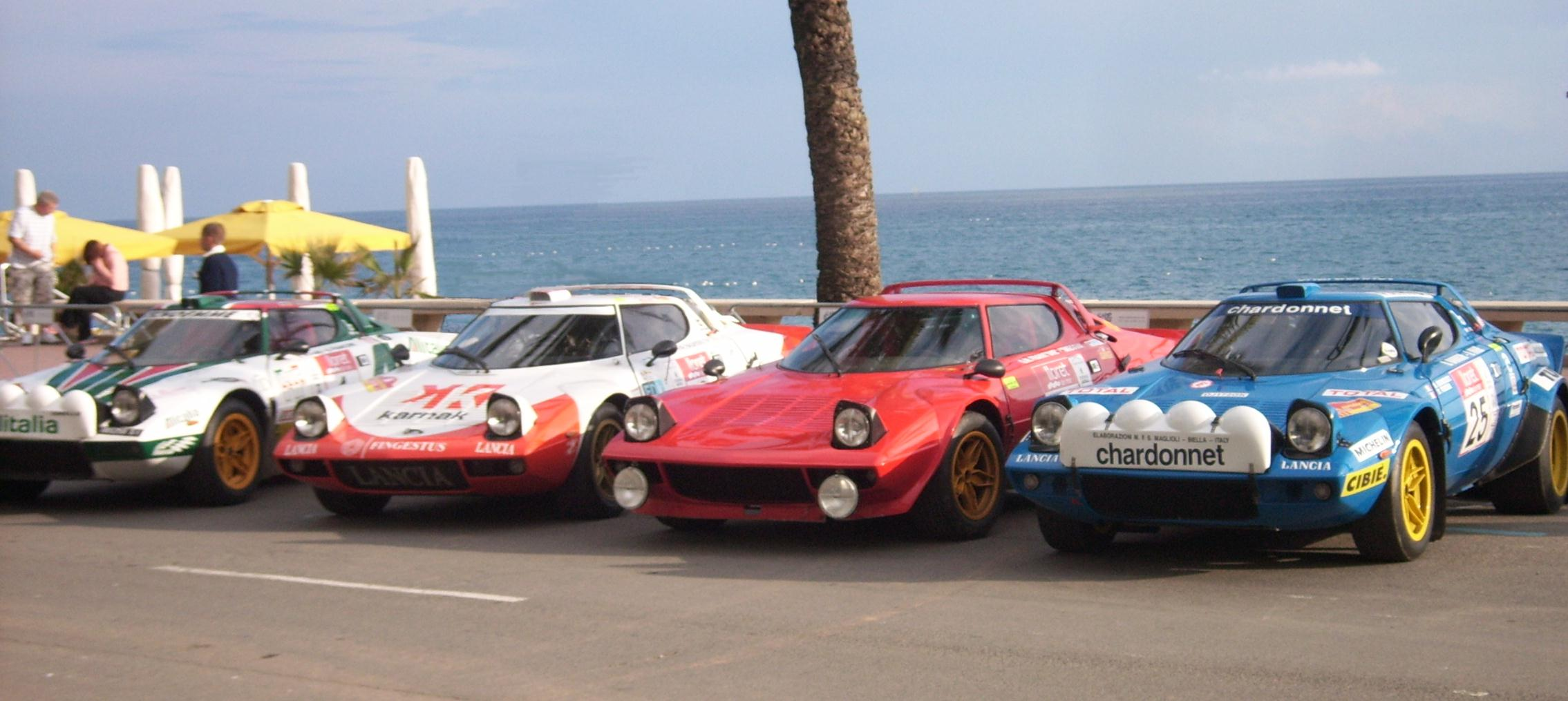 4x Lancia Stratos at the Rally Costa Brava, Lloret de Mar, Spain, 2008-11-08